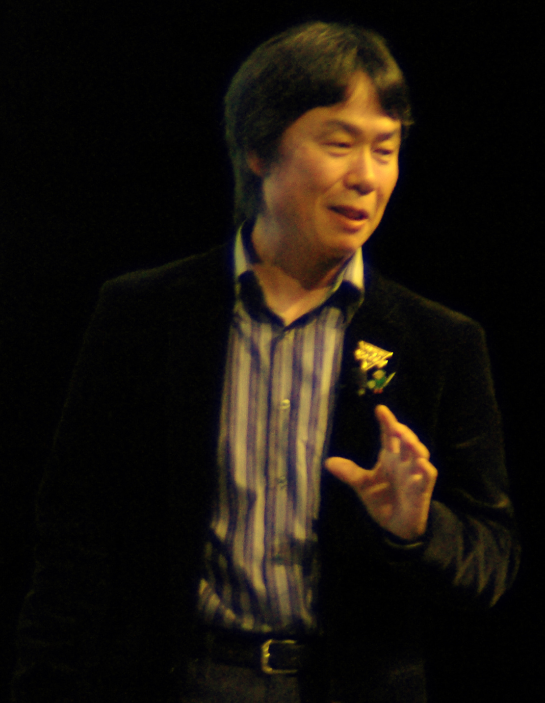 Cropped from this image